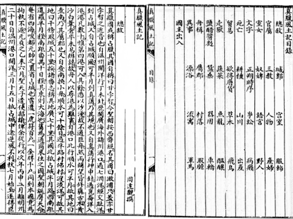 The Customs of Cambodia (真臘風土記), an acccount by Zhou Daguan of his travel in Cambodia in the late 13th century